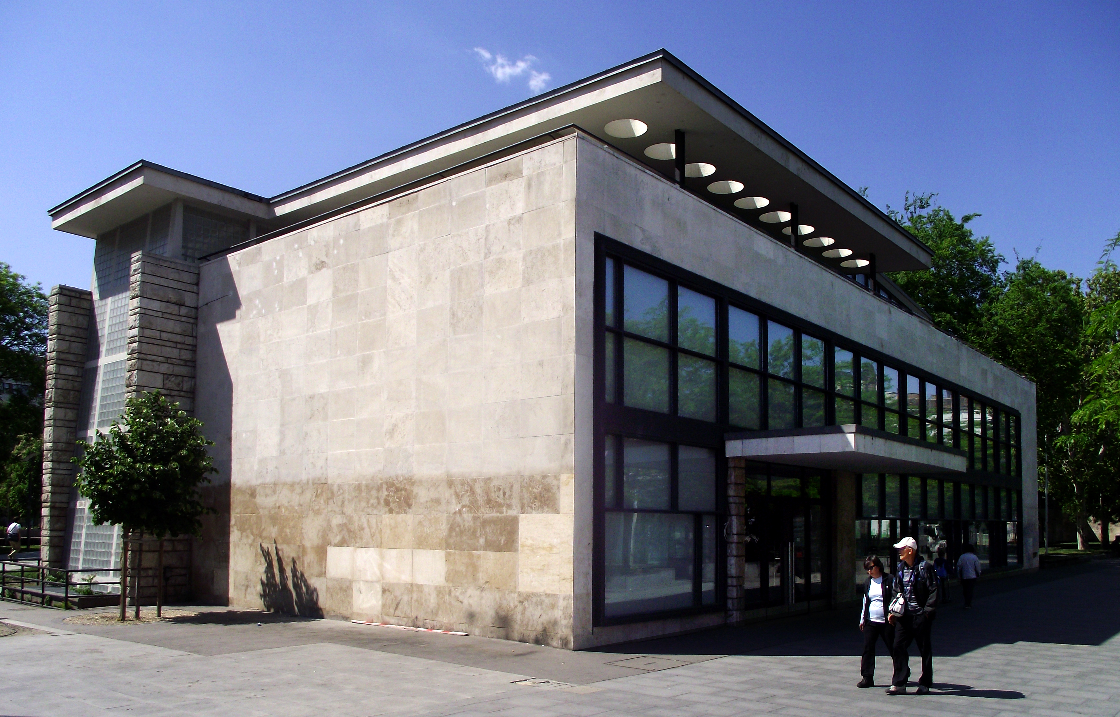 This is a photo of a monument in Hungary. Identifier: 462